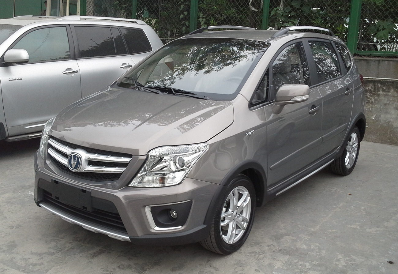 Chang'an CX20 facelift photographed in Chengdu, Sichuan province, China.